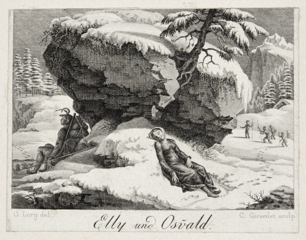 Charles Samuel Girardet - Elly und Osvald (After Gabriel Lory the Elder, Swiss, 1763-1840)